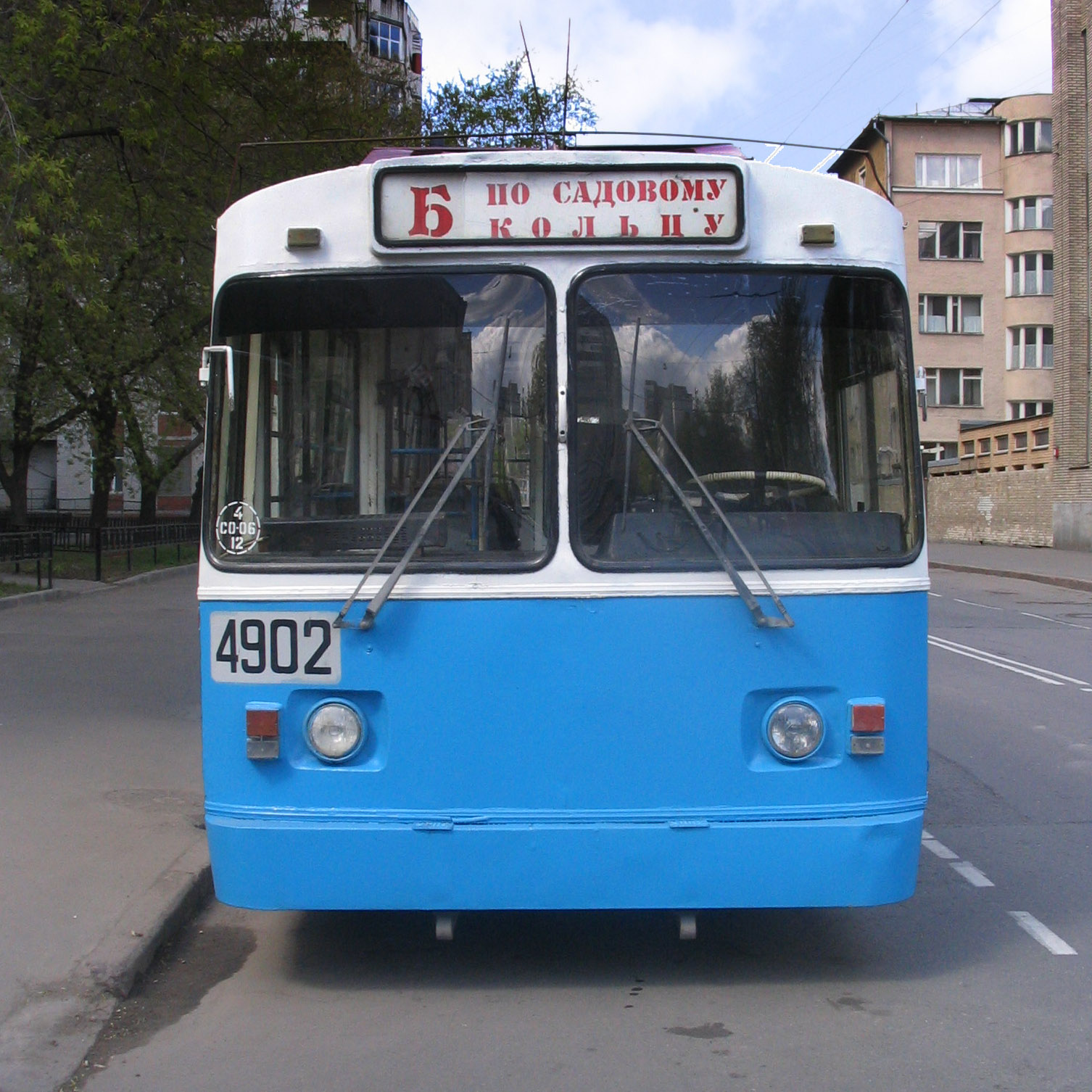 A Moscow trolleybus BTZ 5276-01, Route B. These are still in use throughout the city.